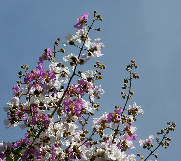 Thai Crape Myrtle Lagerstroemia floribunda in Kolkata, West Bengal, India.